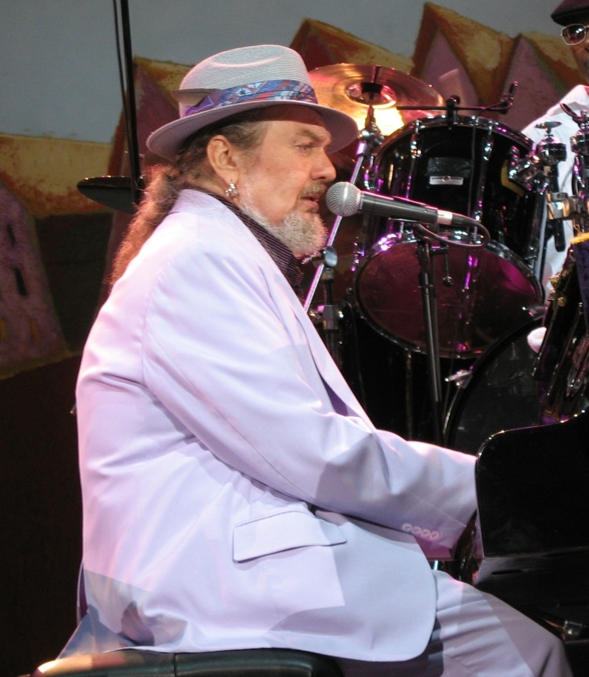 Dr. John in concert, Jazz in Vienne, France, 2006-07-14